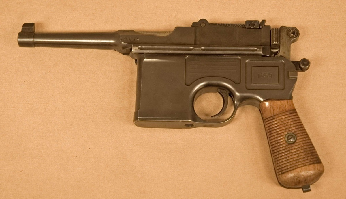 The Mauser C/96 pistol from the Swedish Army Museum collections. Donated to the museum by arms collector Gösta Benckert.